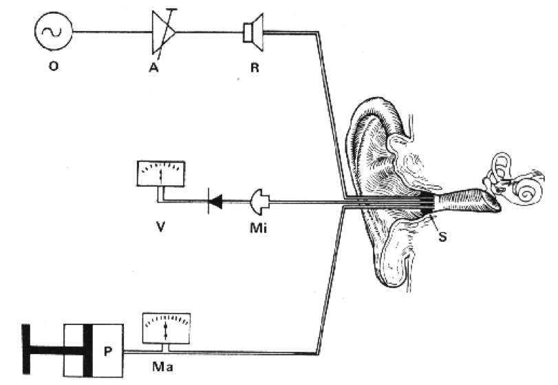 impedenzometria